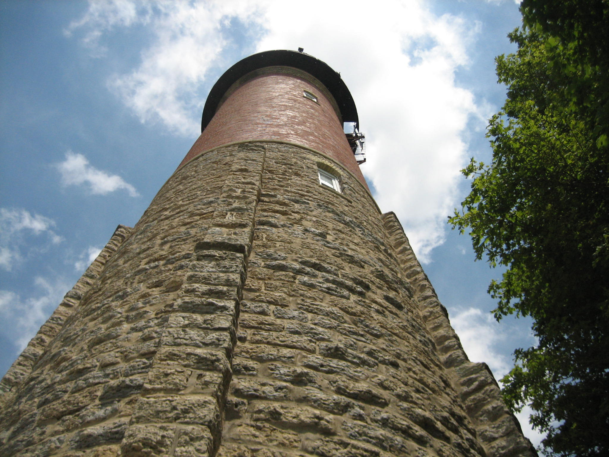 Lena Water Tower, Lena, Illinois, USA. U.S. National Register of Historic Places.